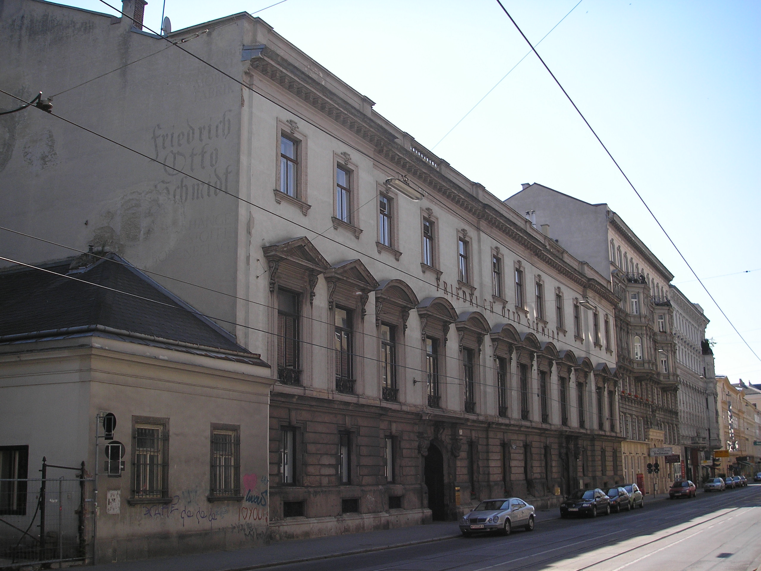 Palais Chotek in Vienna, at Währinger Straße. Seat of the noble Chotek von Chotkova und Wognin comital family.